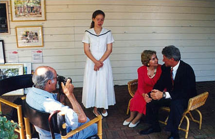 Alfred Eisenstaedt taking last photographs of his life.